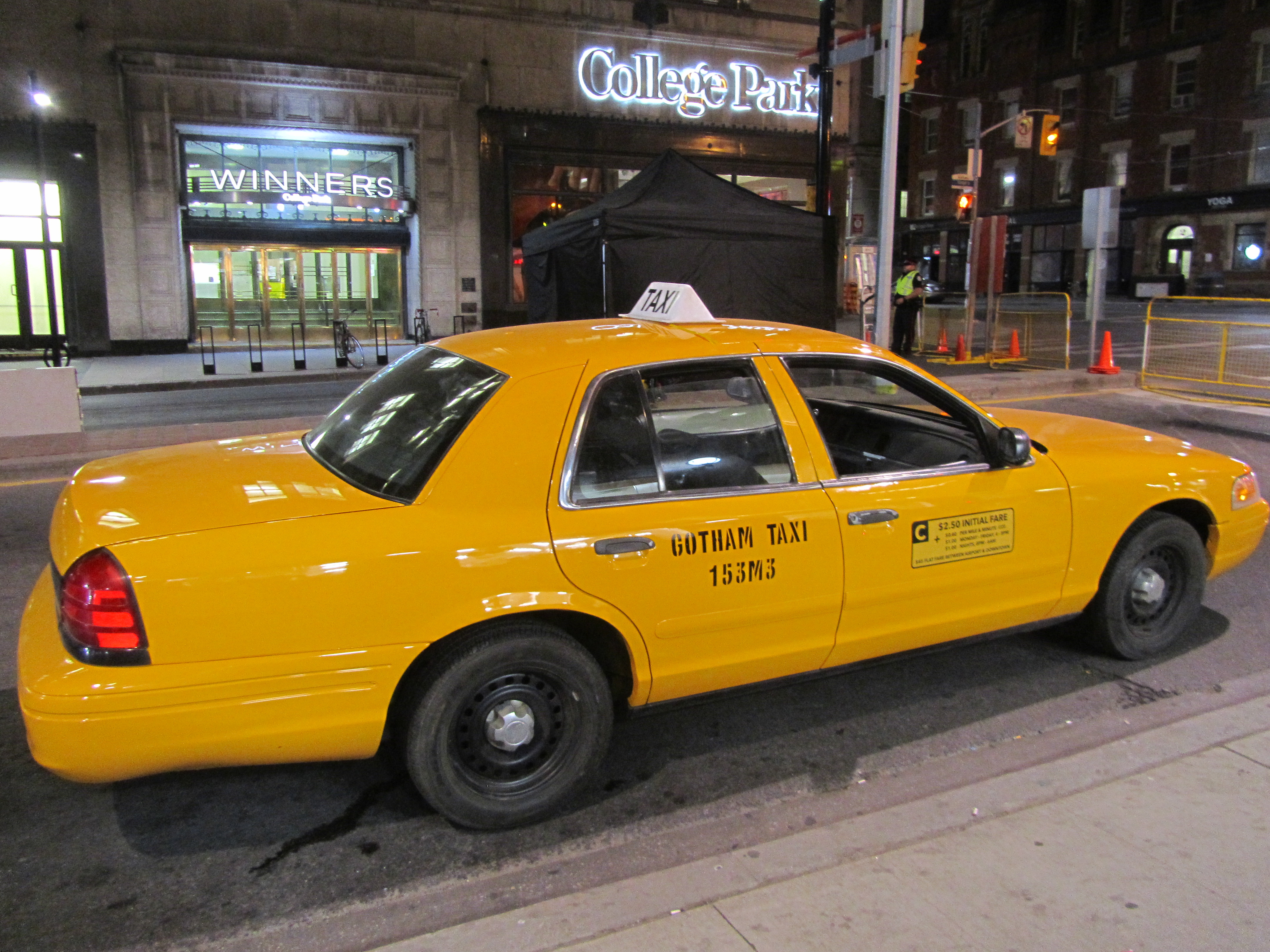 Gotham taxi on the set of Suicide Squad in Toronto.